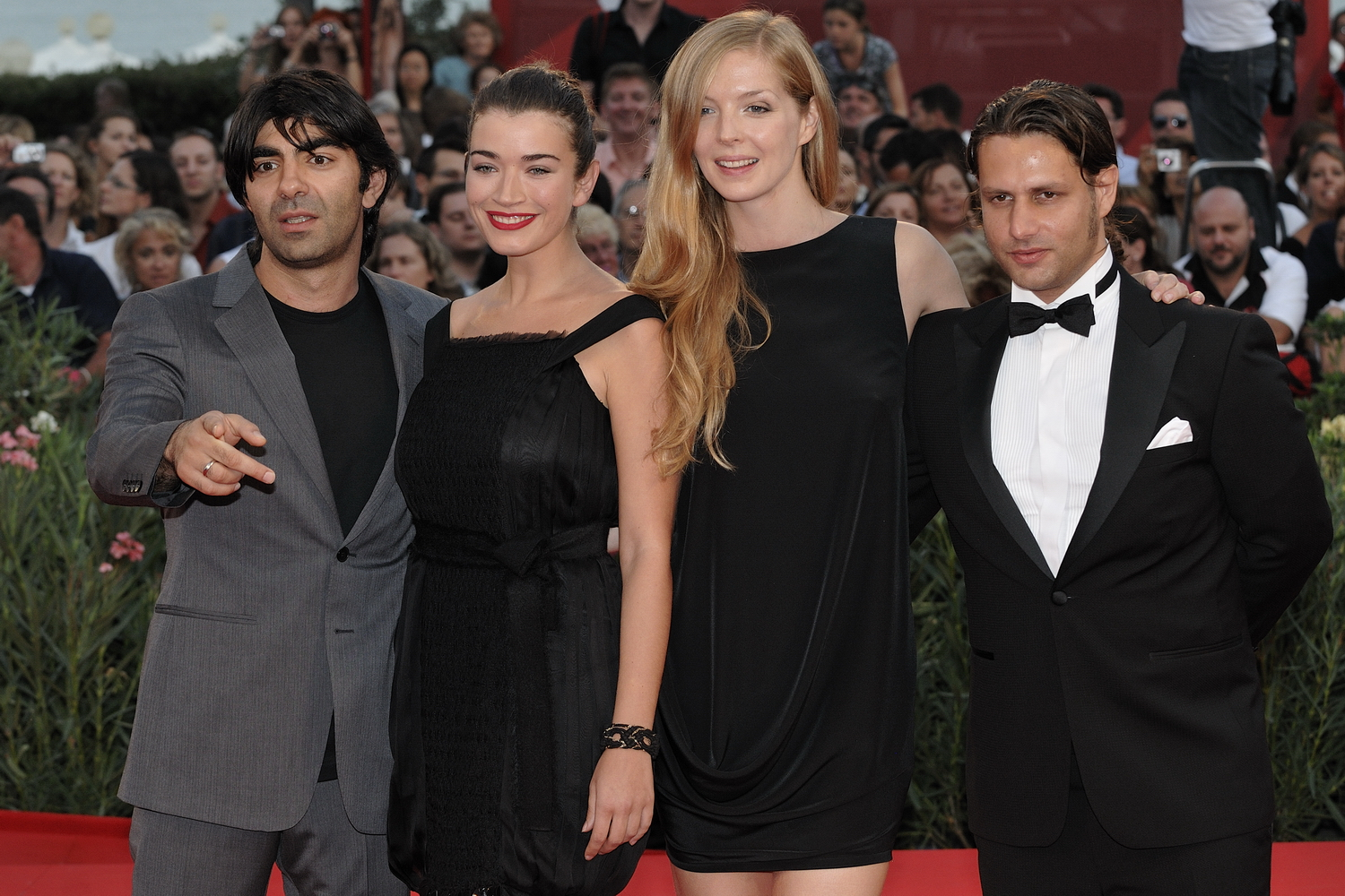 Left to right: Fatih Akin, Anna Bederke, Pheline Roggan and Adam Bousdoukos at closing ceremony of the 2009 Venice Film Festival